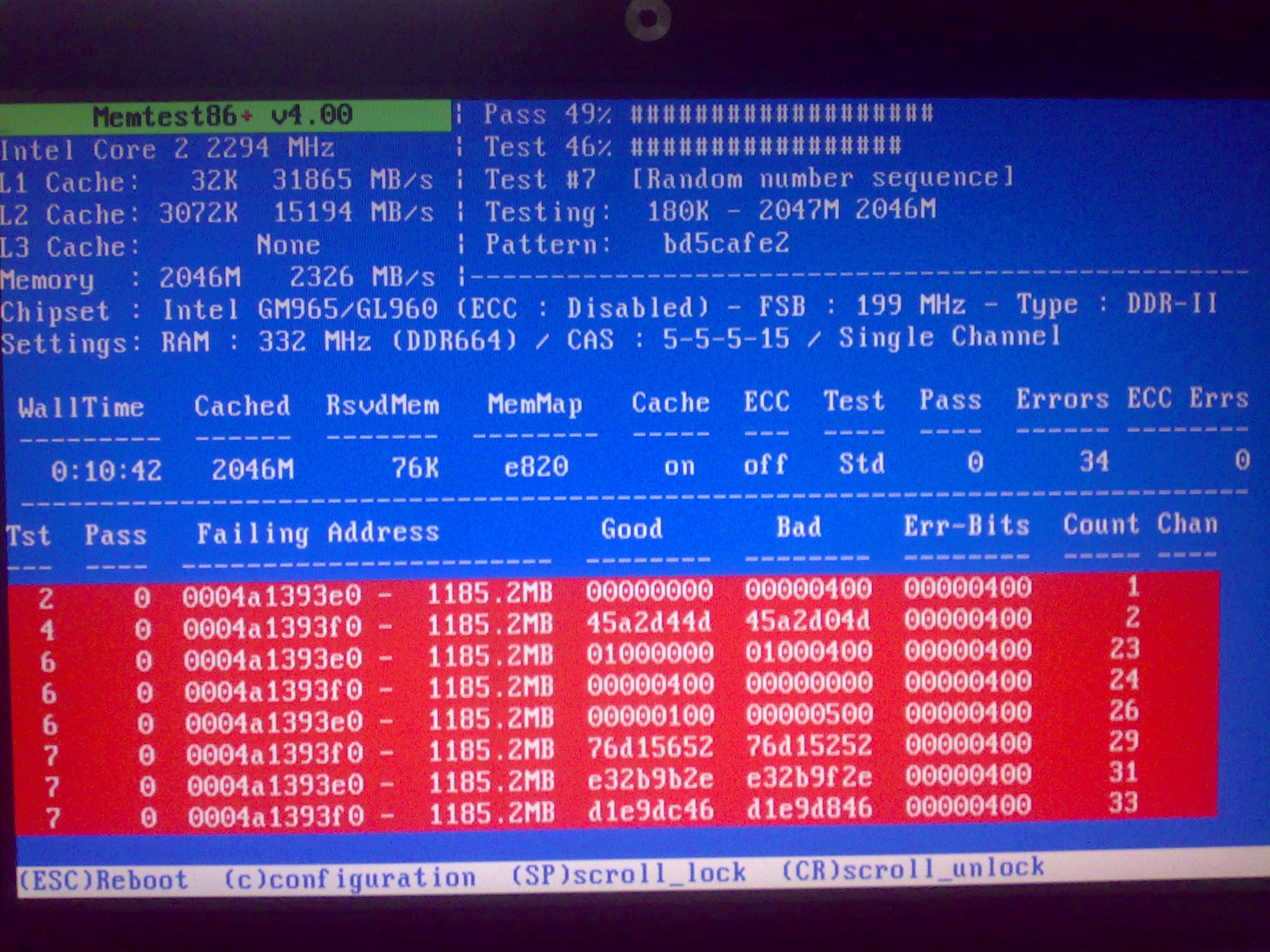 The image is a photograph of my laptop screen showing Memtest86+ 4.00 in action. As we can see, 2 bits of the 2046 MiB of RAM have failed in tests 2, 4, 6 and 7. Test 7 is still in progress.